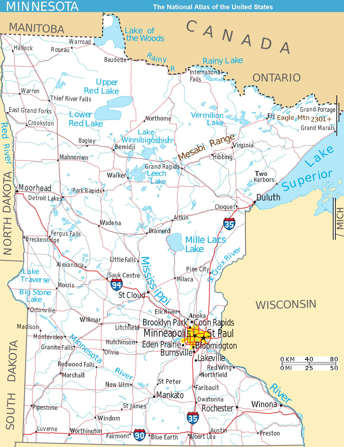 Scalable map of the U.S. state of Minnesota, showing terrain features: hills, lakes, rivers, roads and major towns, in quick photographic format (JPEG) to highlight terrain features. The Mesabi Range, Mount Eagle, and nearby states are labeled; the Interstate icons are enlarged 40%; and major cities are bolded 20%-40% for readability when scaled to 310px display width. The distance scale is shown in miles/kilometers, and labels appear 4x times larger than original in the US National Atlas, at similar display width. Format: Quick JPEG format for photographic quality, extracted/reduced from National-Atlas file of PNG format, 130x times more massive. Names have been enlarged for readability when map is resized smaller. Map is huge and could be reduced more: the original PNG file might crash browsers with many open windows.